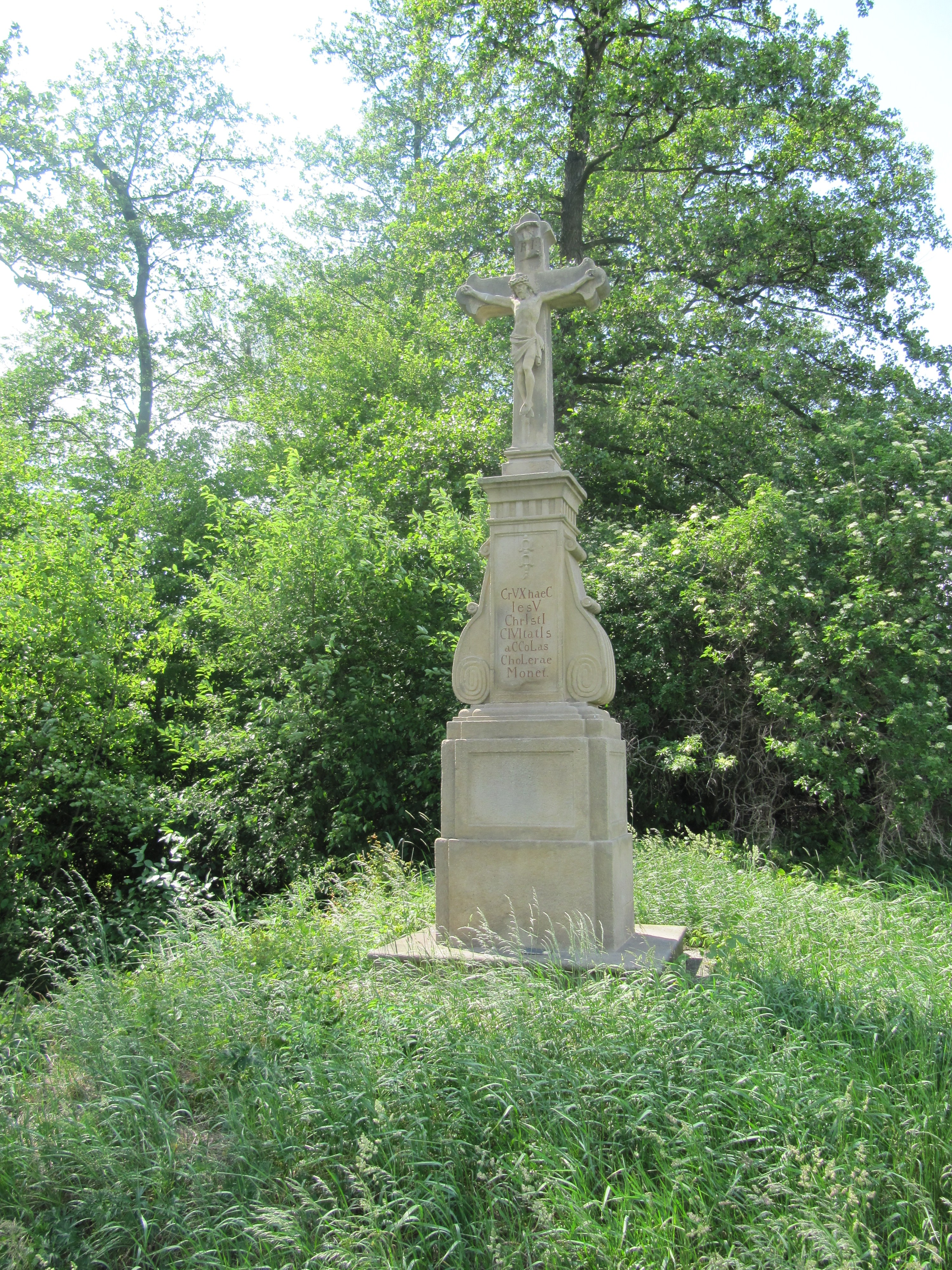 Kroměříž, Czech Republic, part Bílany. Crucifix with a Latin chronogram dated 1831.